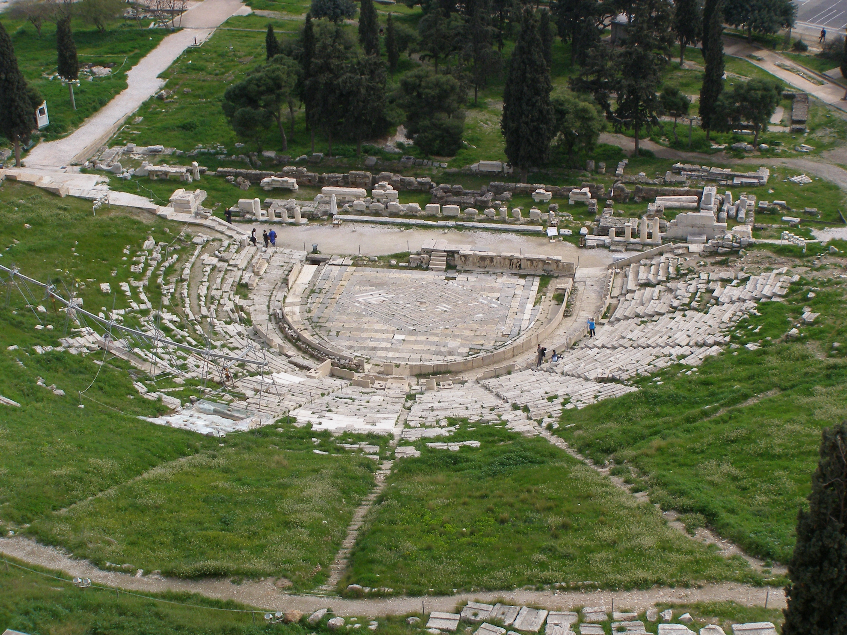 Athens - Theatre of Dionysus